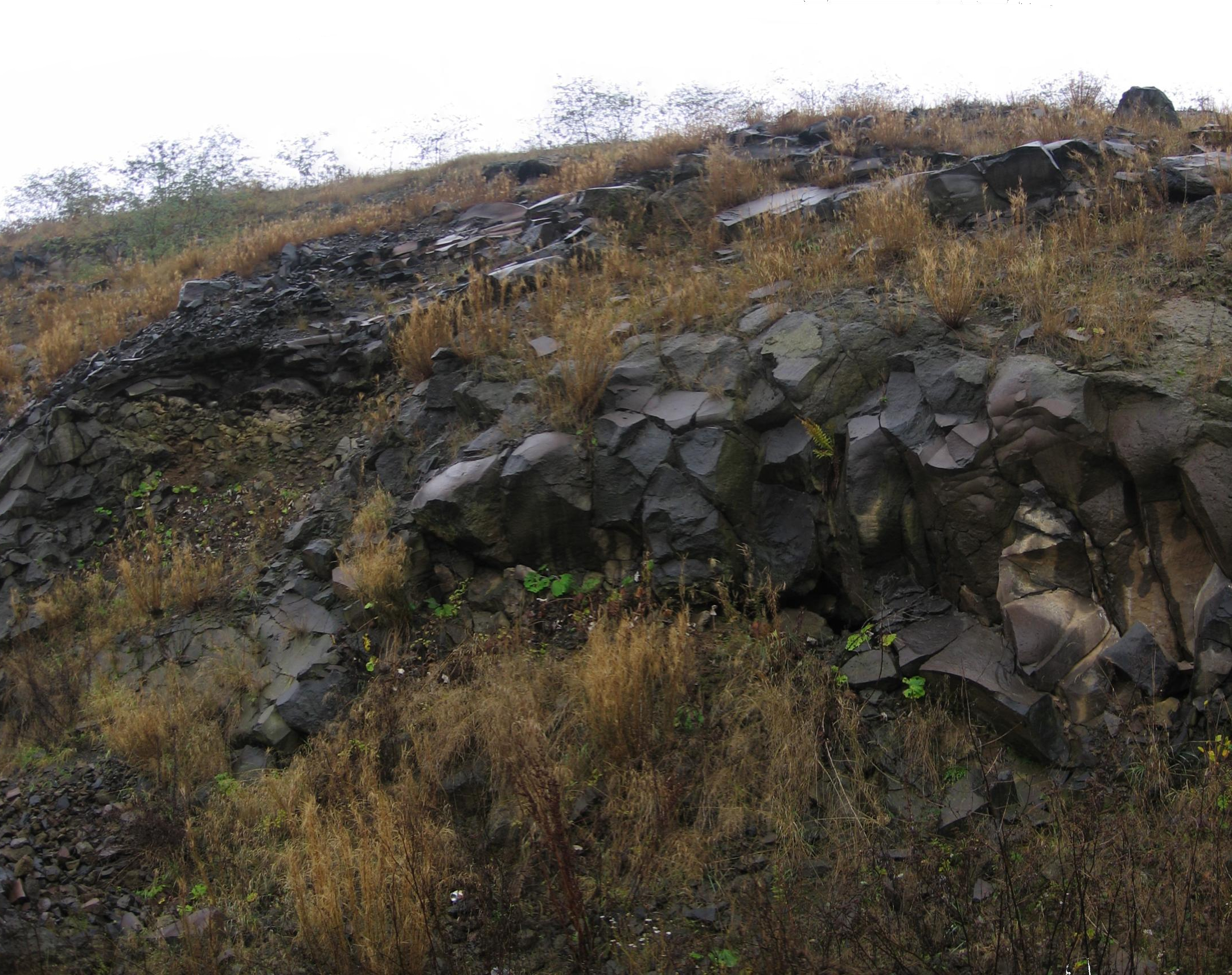 Quarry in the basaltic lava flow (close to the Hron River) of Putikov vršok, the youngest (pleistocene) volcano in Western Carpathians.